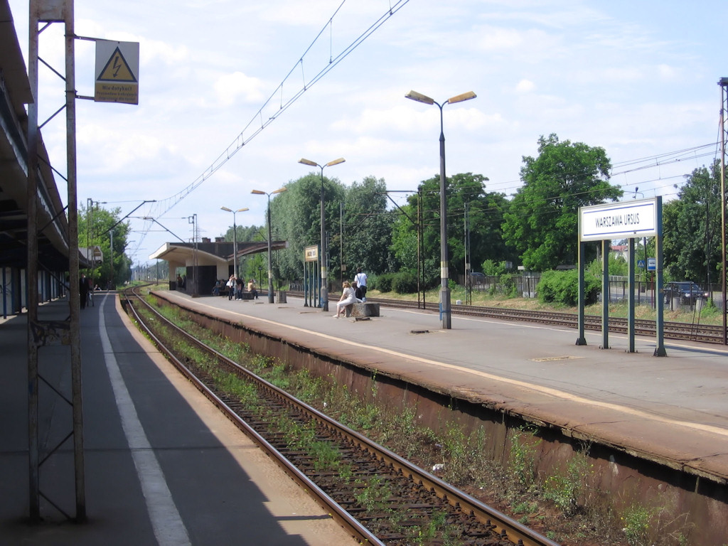 The train station Warsaw Ursus, Poland